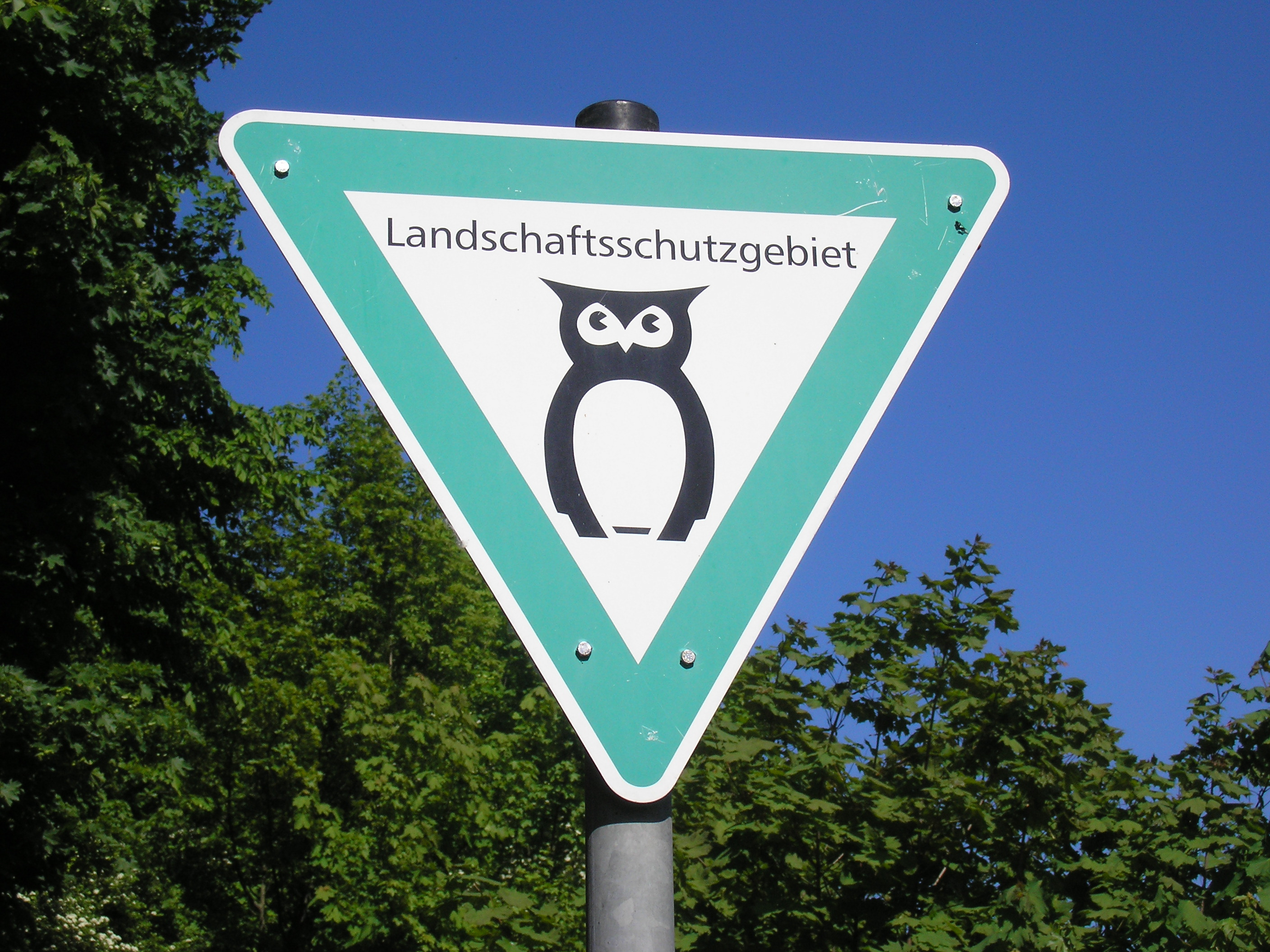 Sign for a protected landscape area ("Landschaftsschutzgebiet") in Lower Saxony with an owl as symbol; Hameln